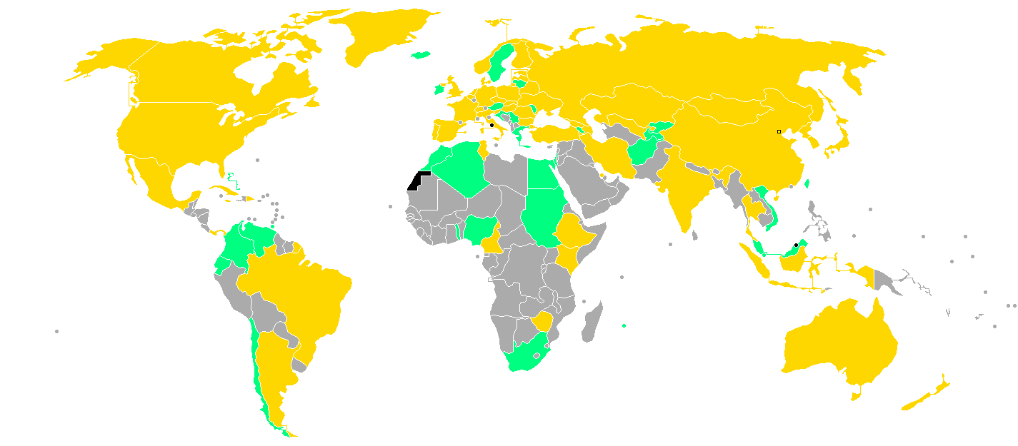 Map of 2008 Summer Olympics medal winning countries